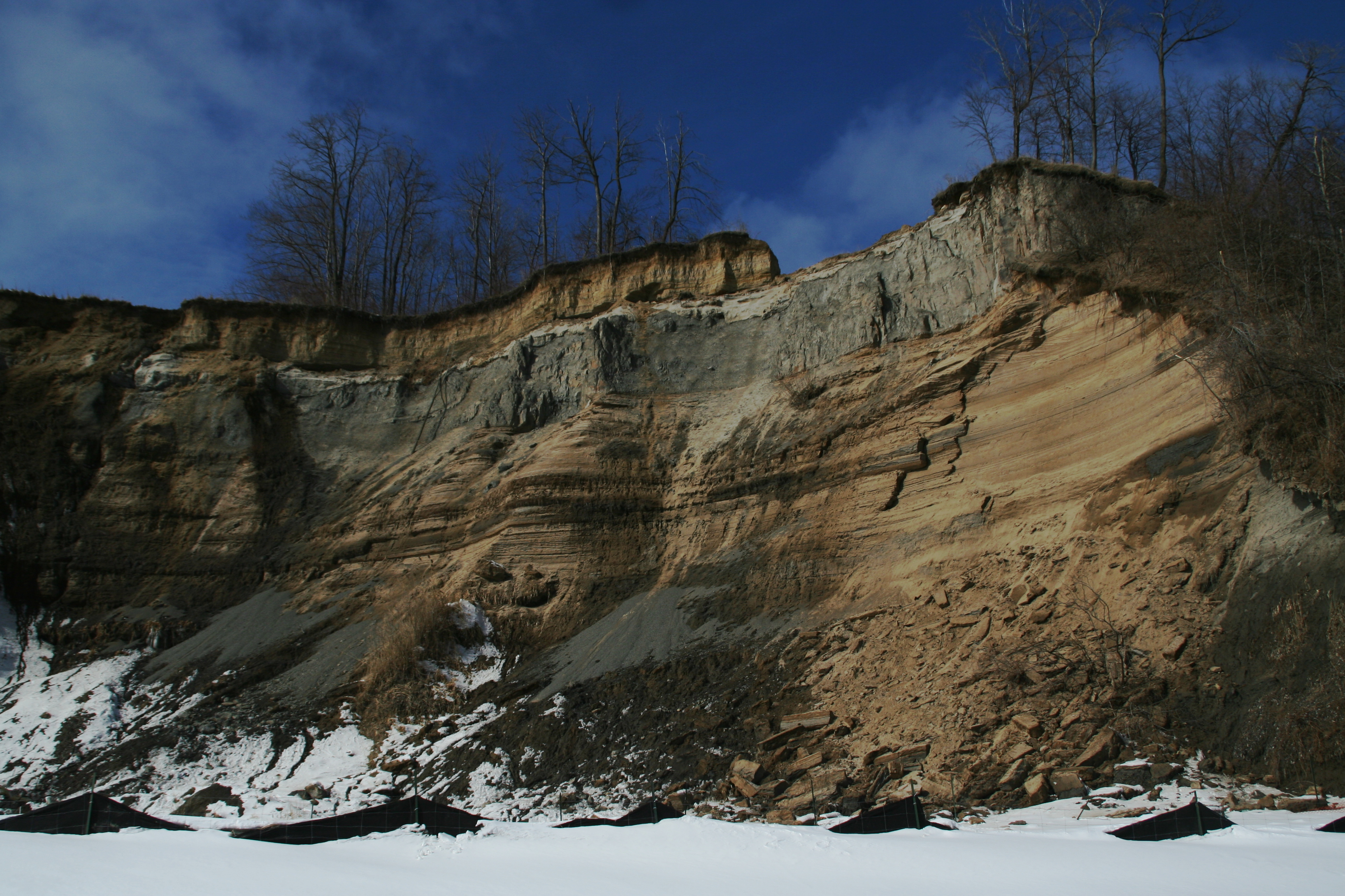 Scarborough Bluffs, a glacial landform located along the shoreline of Lake Ontario.